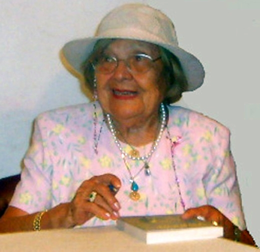 Muazzez İlmiye Çığ lecturing in Mersin